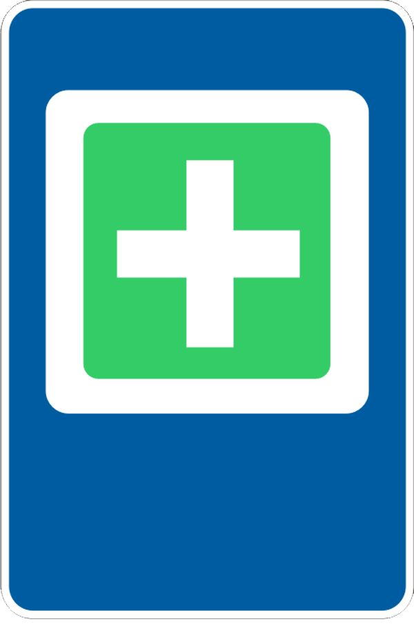 First aid.